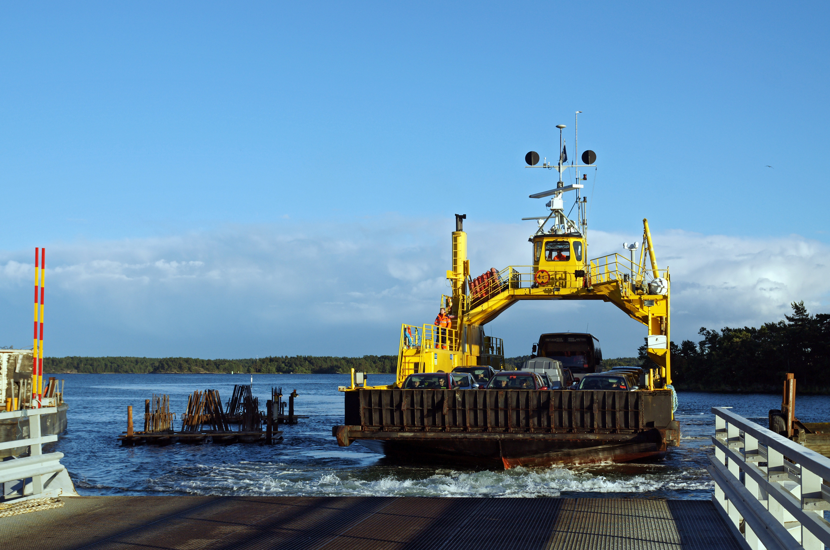 L/A Merituuli.